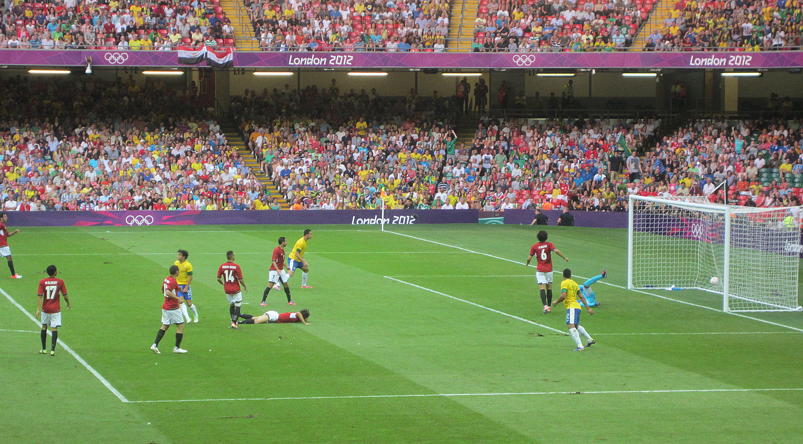 Brazil's first goal - they went on to win 3-2